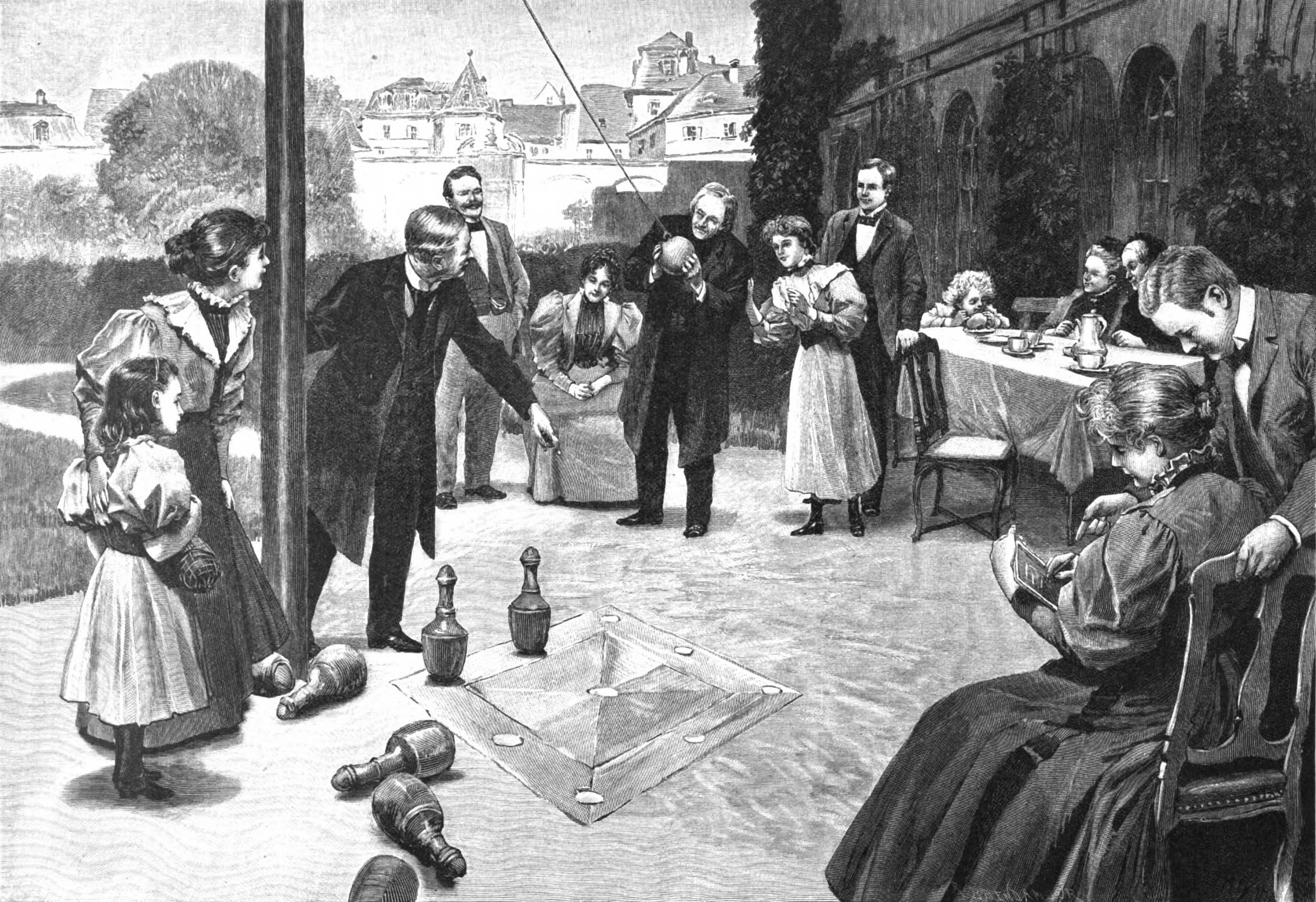 caption: "Sonntagnachmittag im Dekansgarten."